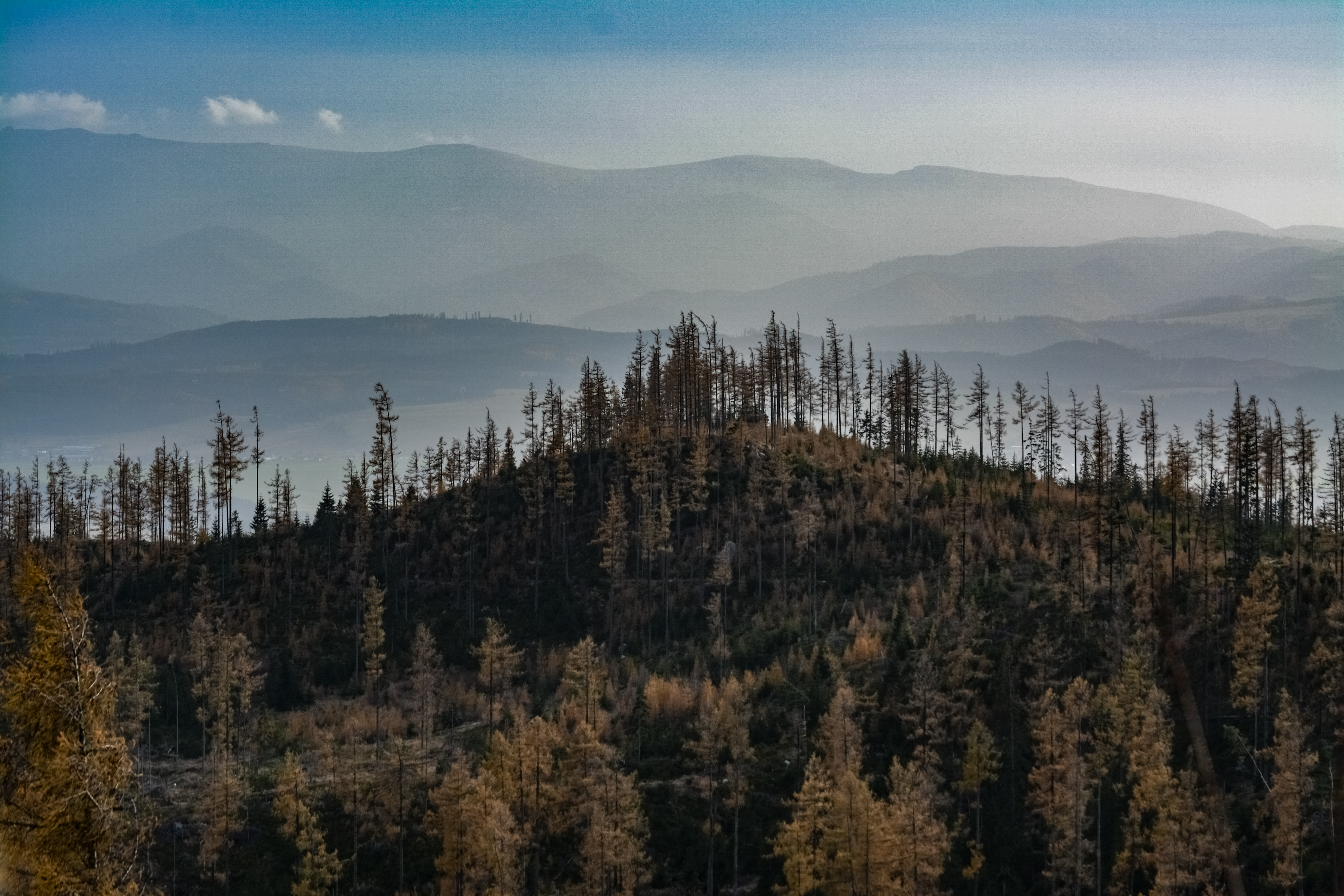 Highest point in Uhlištiatka national natural reservation in High Tatras